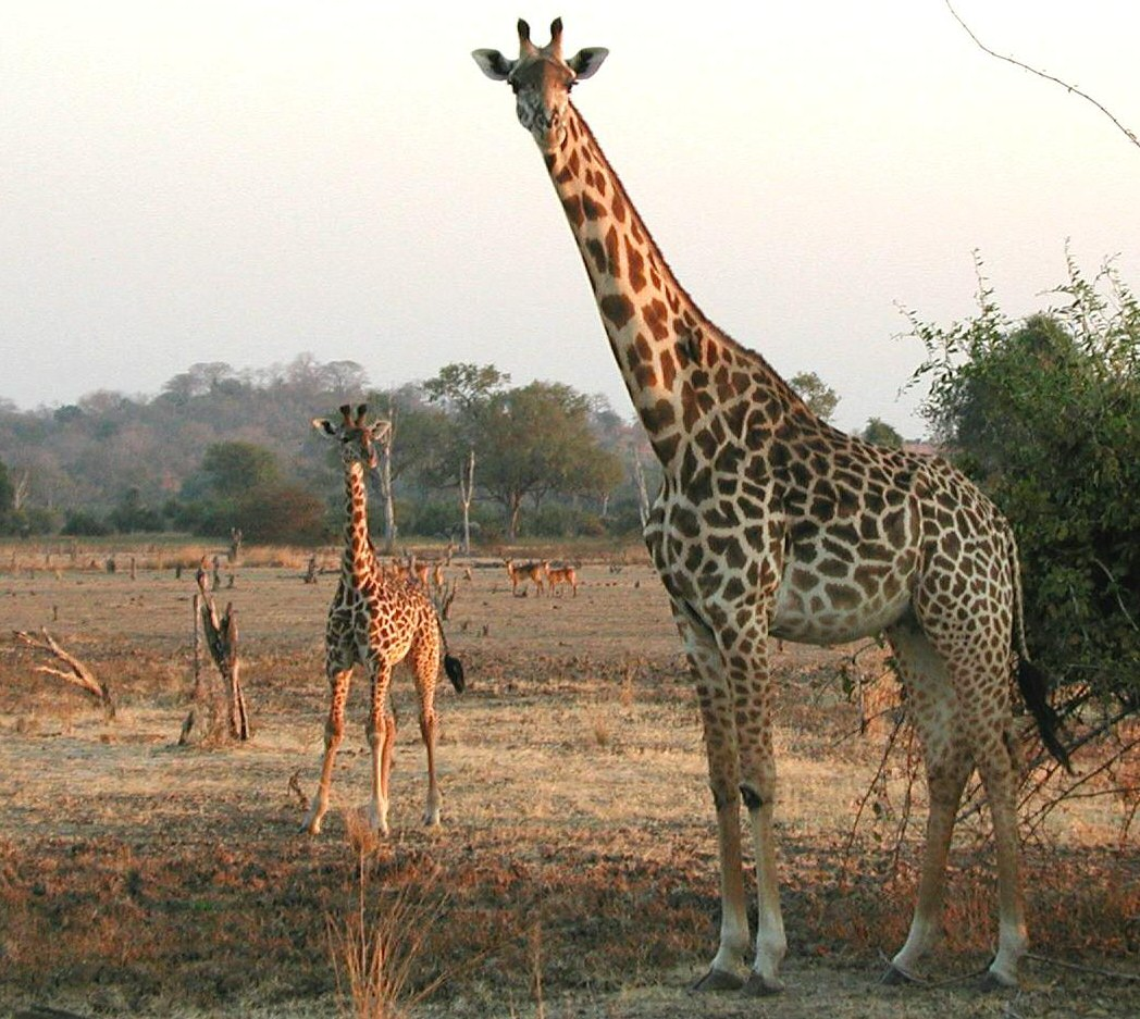 A Giraffe mother and her calf in the South Luangwa National Park of eastern Zambia